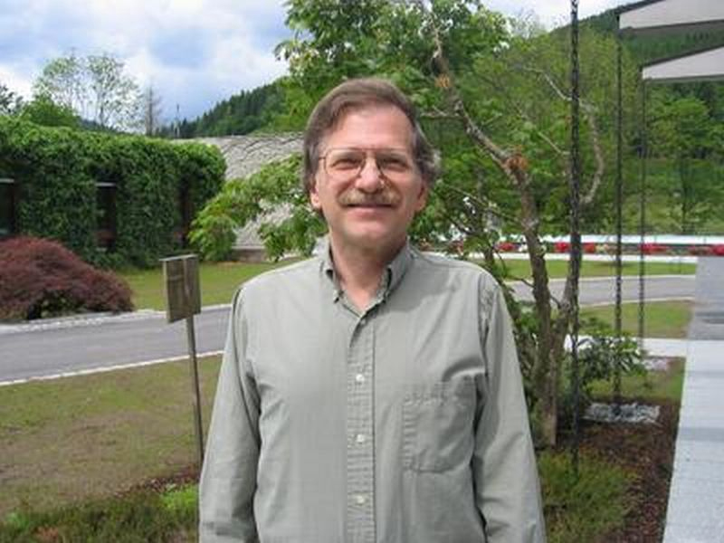 David Harbater, Oberwolfach 2007